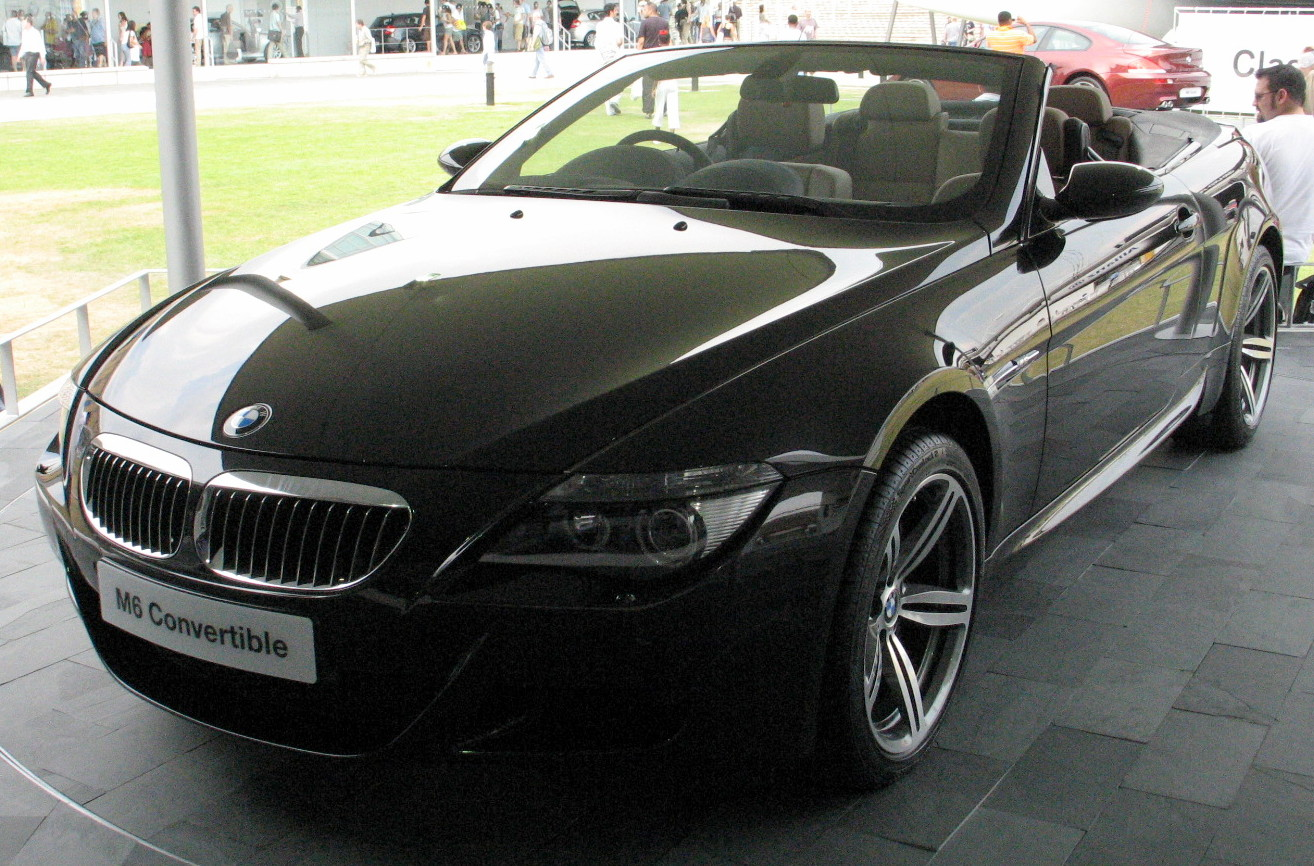 BMW M6 Convertible (E64)BMW M6 Convertible